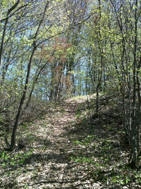 Forest by the river Rzav, Central Serbia